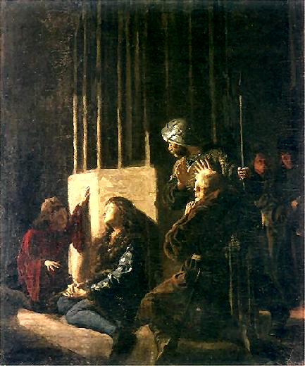 Saint Casimir and Jan Długosz